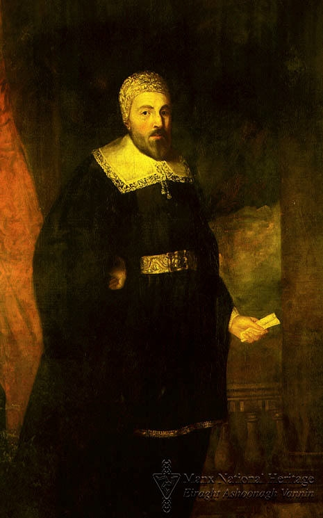 William Christian, also known as Illiam Dhone. Oil painting on display in the National Art Gallery at the Manx Museum in Douglas (IOM).